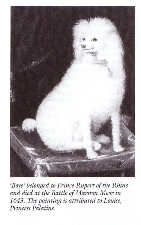 Dog (Boye or Puddle) said to belong to Prince Rupert of the Rhine (1619-1682), Killed at the Battle of Marston Moor in 1643, painting is attributed as being Rupert's sisters work.